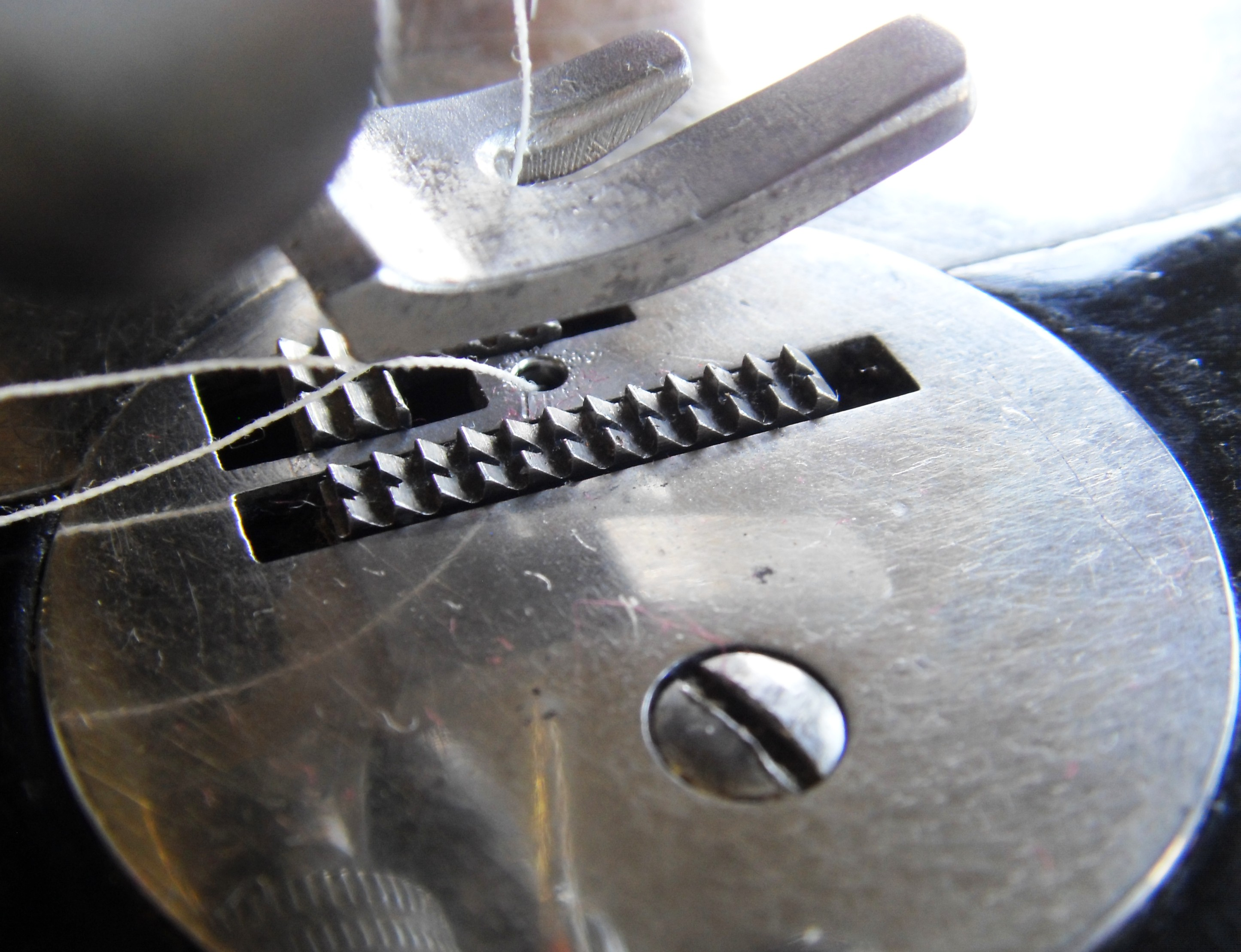 Singer model 27, closeup of feed dogs, needle plate, and presser foot